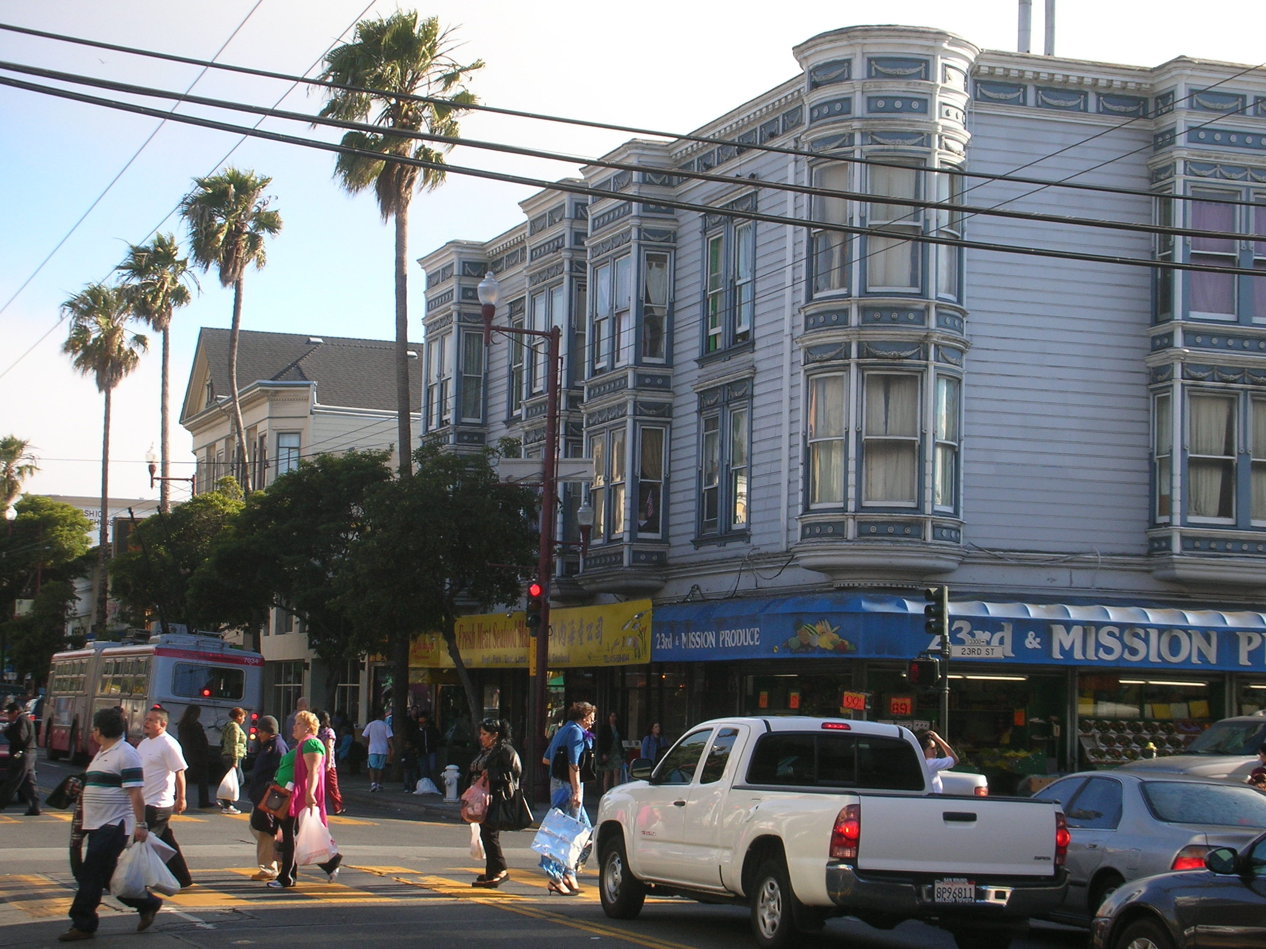 Street in the Mission District, San Francisco.